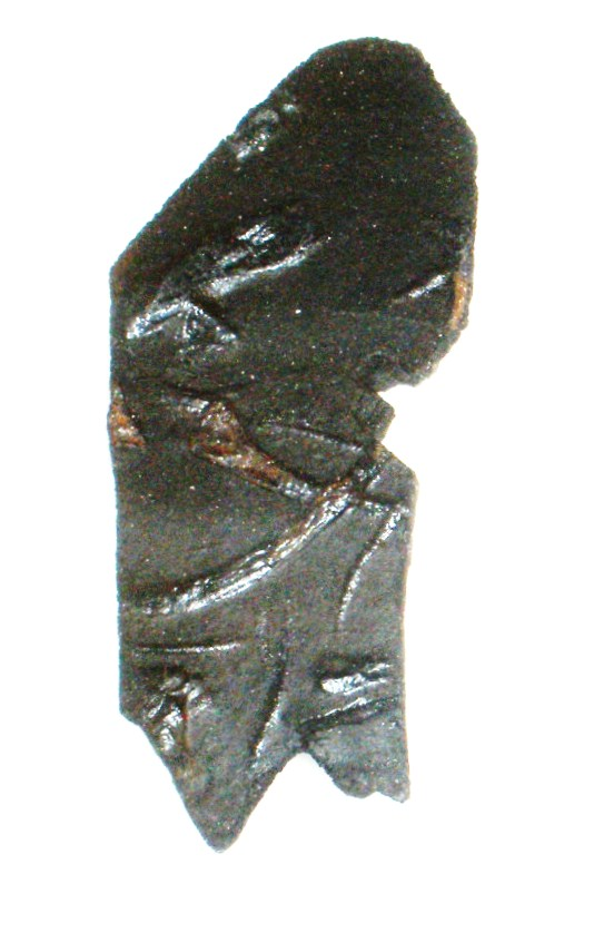 Took the photo at Museo dei Fossili di Besano